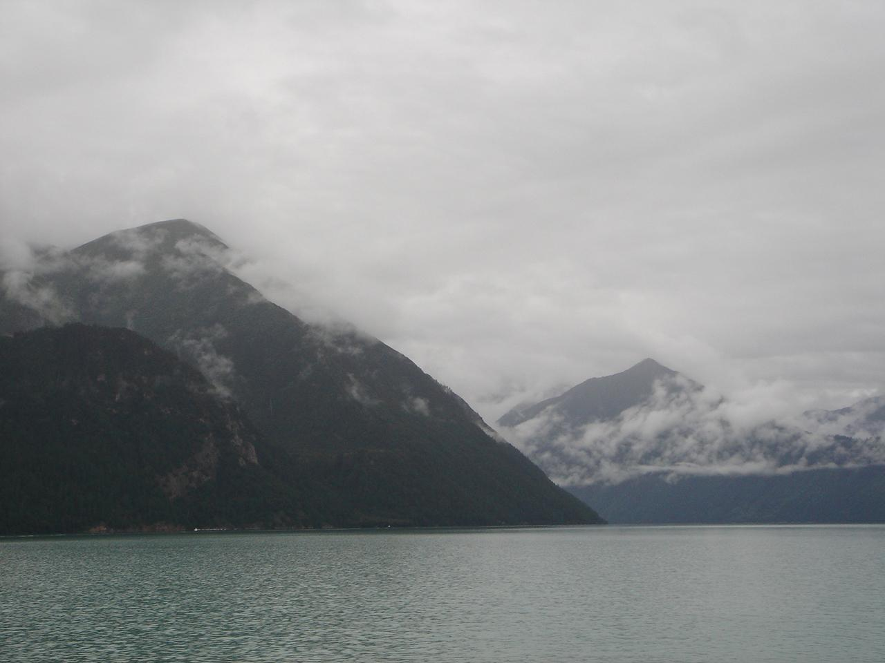 Yarlung Zangbo River in Tibet, China